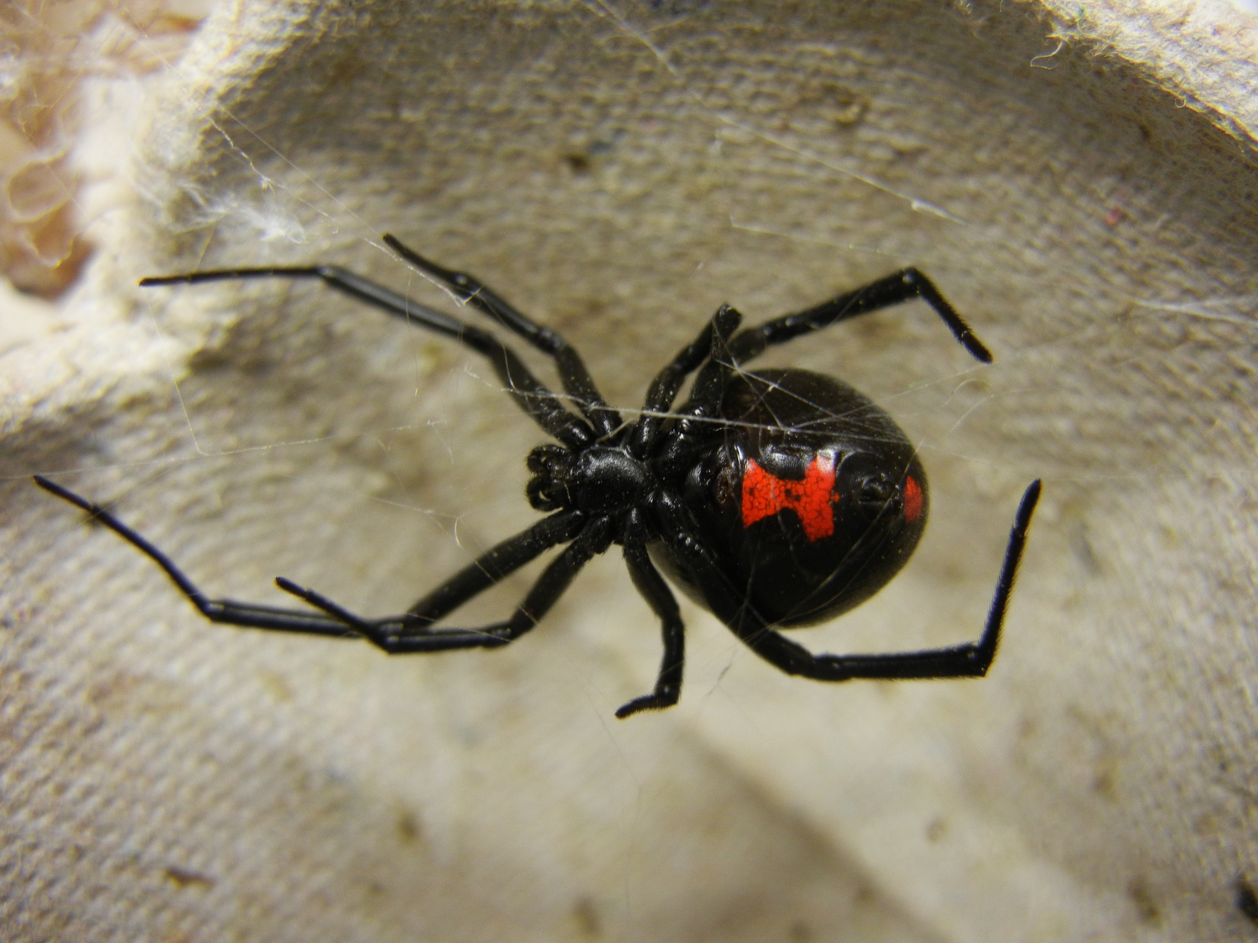 Pregnant(Gravid) Adult Female L. mactans showing red hourglass shape on ventral side of abdomen. Captured in Knightdale, NC.